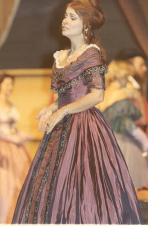 Author: Marta Belen Source: David Hutchinson at her first opera performance.